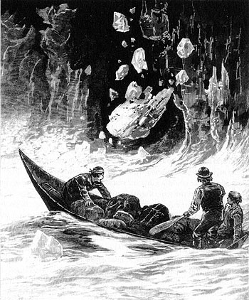 Edward Glave's and Jack Dalton'S Yukon adventure